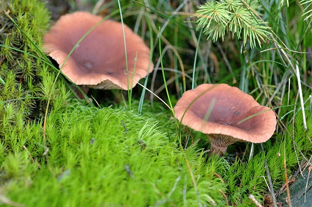 Lactarius camphoratus from Commanster, Belgium. The determination of the species shown in this picture has been verified.